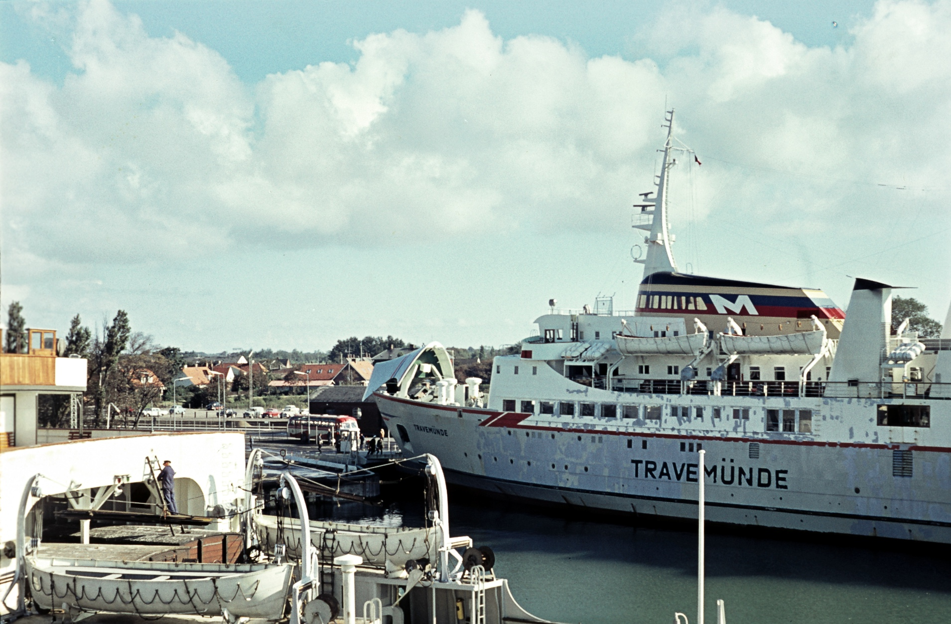 Passengers enter the West-German passenger ferry Travemünde while docked besides the steam ferry Danmark (foreground left) in Gedser port 1964.